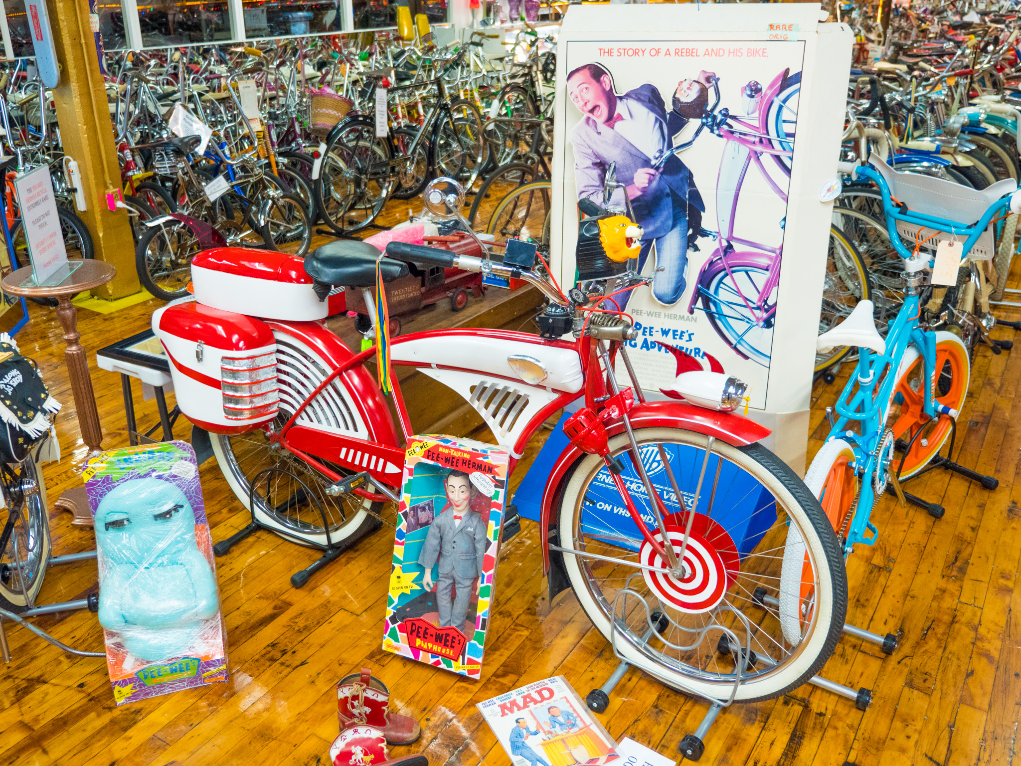 Prop bicycle used in the movie Pee-wee's Big Adventure on display at Bicycle Heaven.